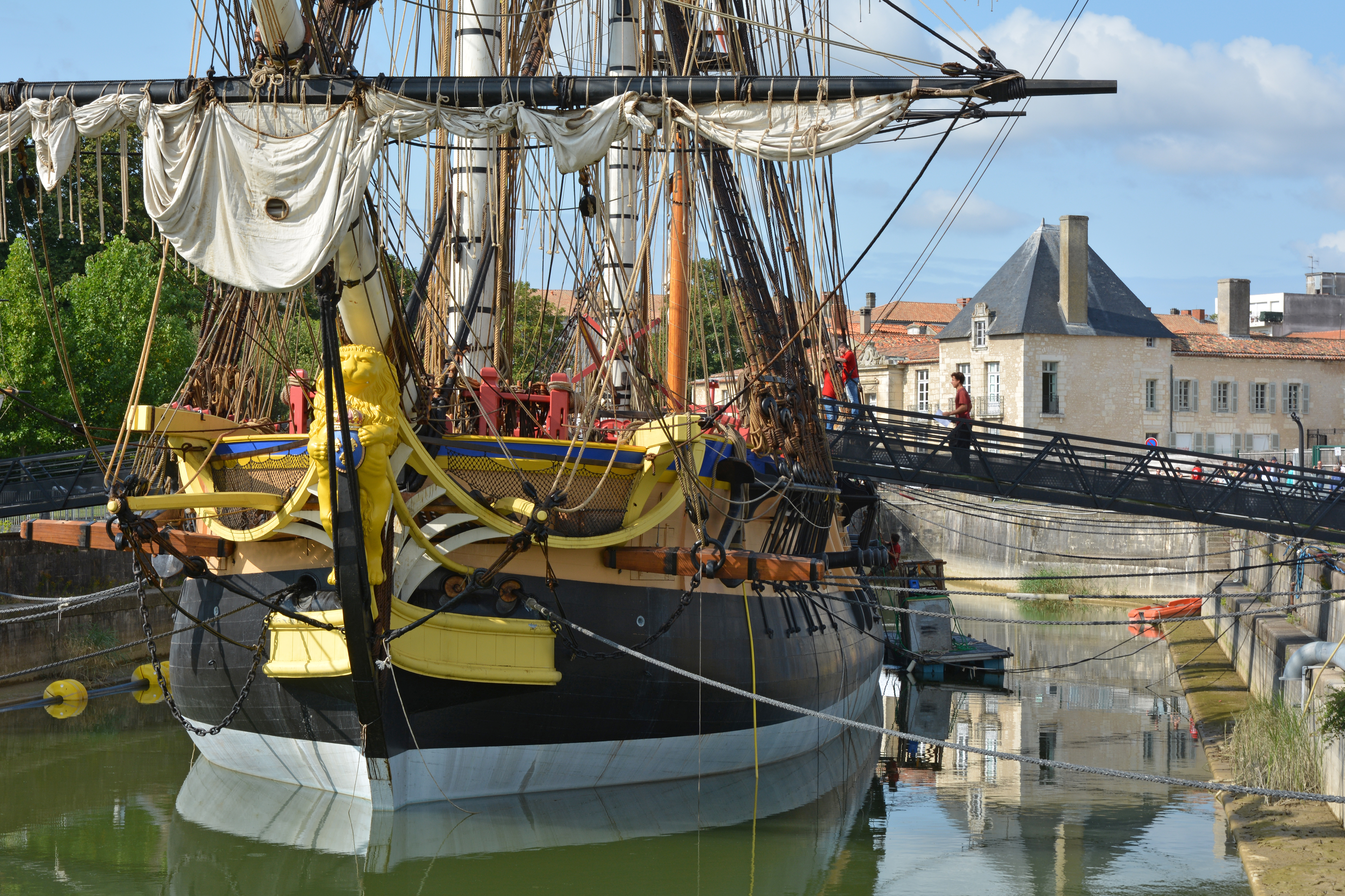 French frigate Hermione reproduction of the 1779 Hermione which achieved fame by ferrying General Lafayette to the United States in 1780. Near achievement in one of the two dry docks beside the Corderie Royale at Rochefort